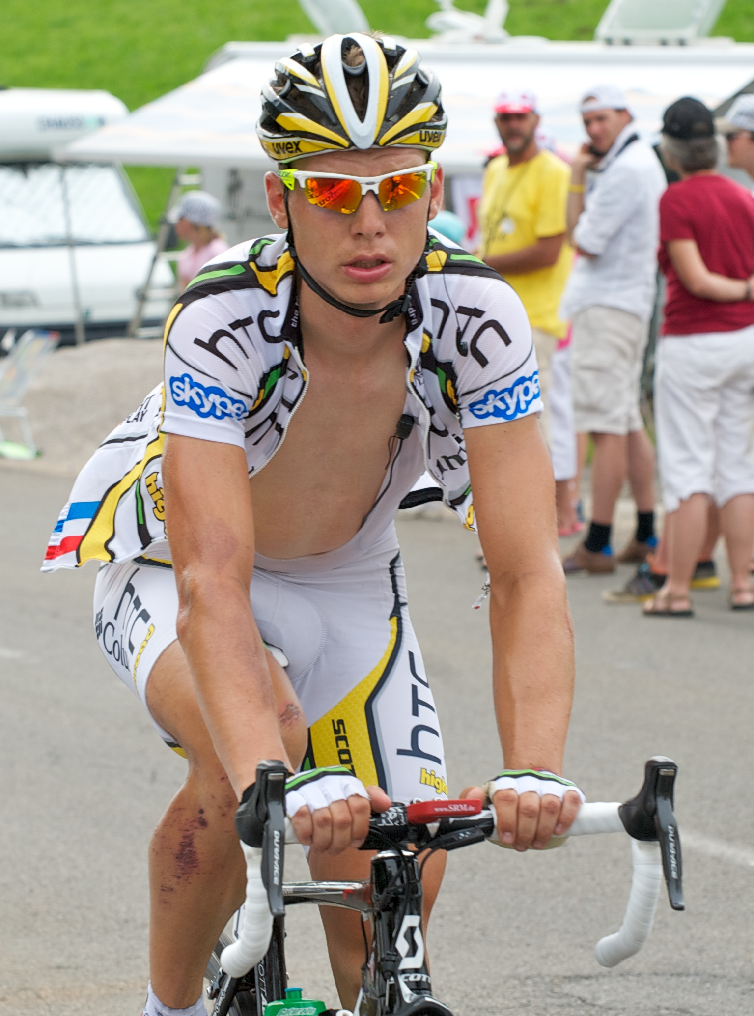 Former white jersey (and not-quite-winning-but-still-awesome hero of the Ventoux last year) Tony Martin. A class act. Tour de France 2010, Stage 7, 4km before the finish on the last climb.